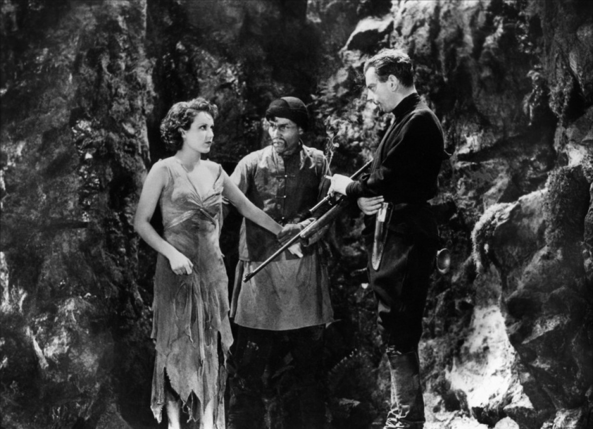 Left to right: Fay Wray, Steve Clemente, and Leslie Banks in The Most Dangerous Game - publicity still.